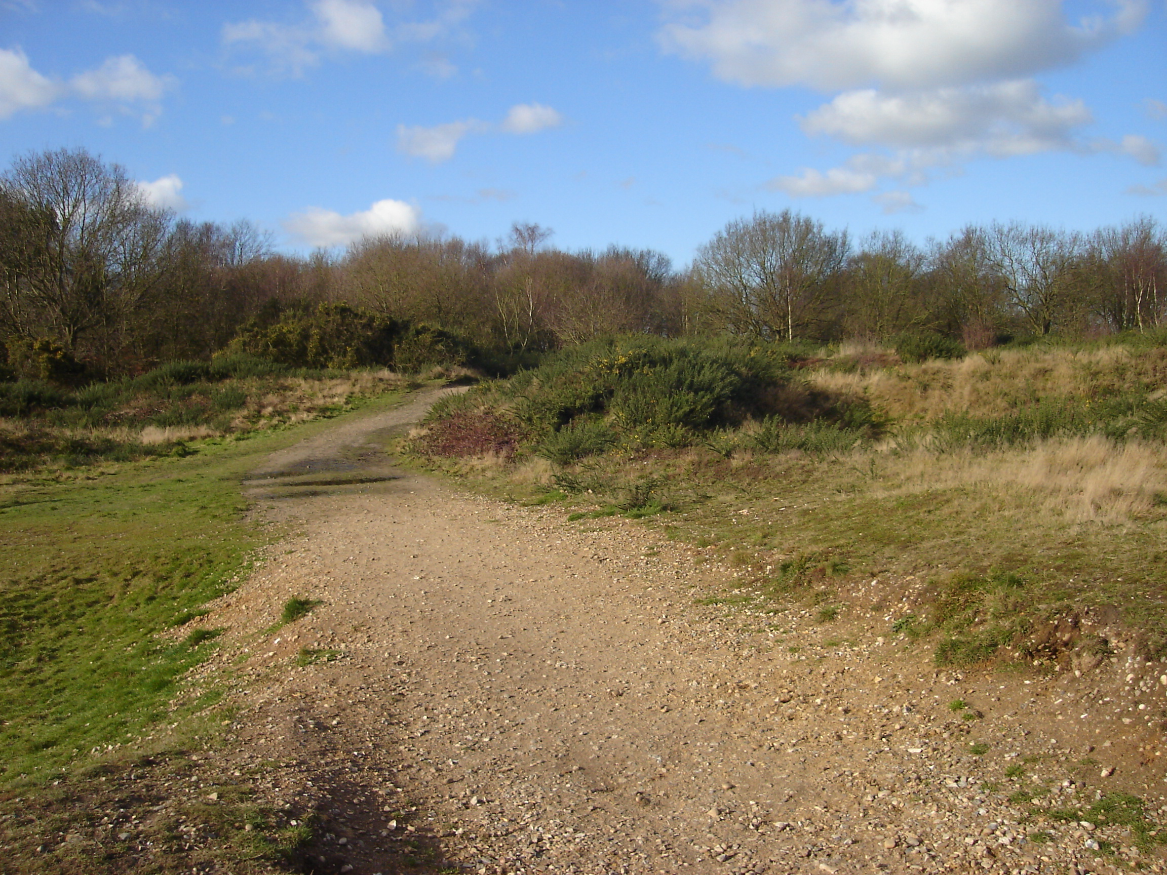 Picture of Mousehold Heath